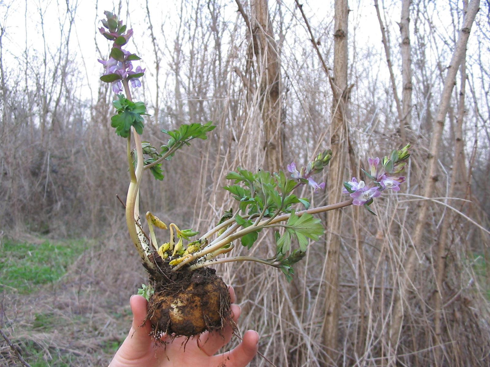 Plant and bulb of Corydalis cava